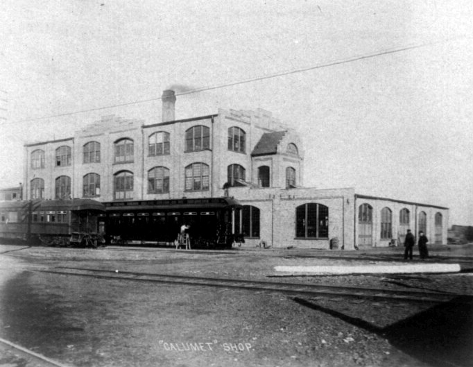 Postcard photo of the Pullman Company's Calumet Works.